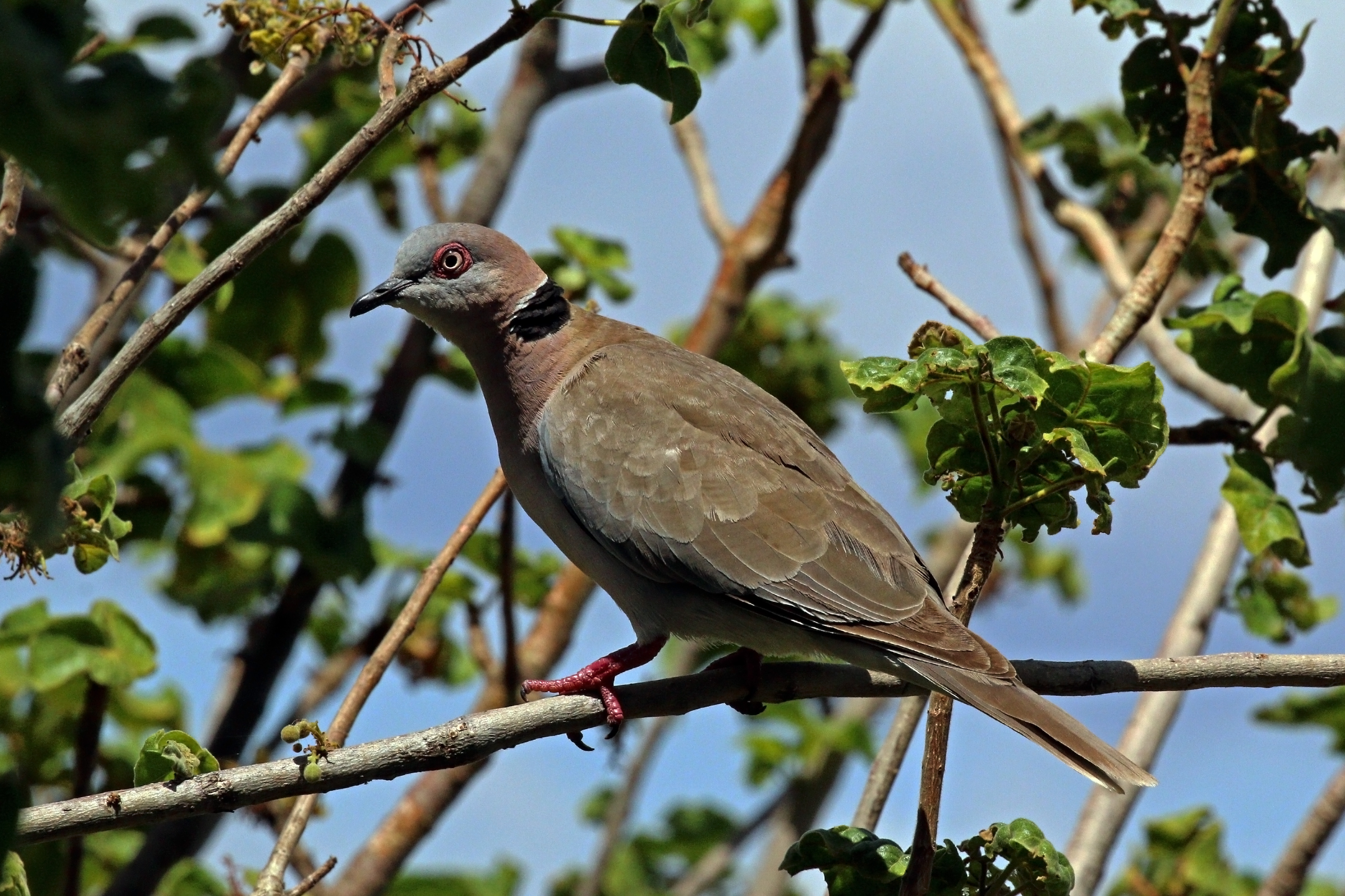 African mourning dove (Streptopelia decipiens perspicillata), Lake Baringo, Kenya